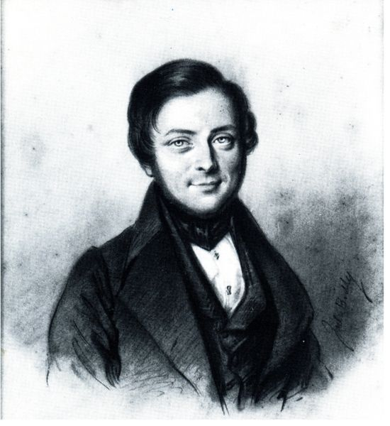 Camillo Benso, count of Cavour (1810-1861) by Julien Léopold Boilly.